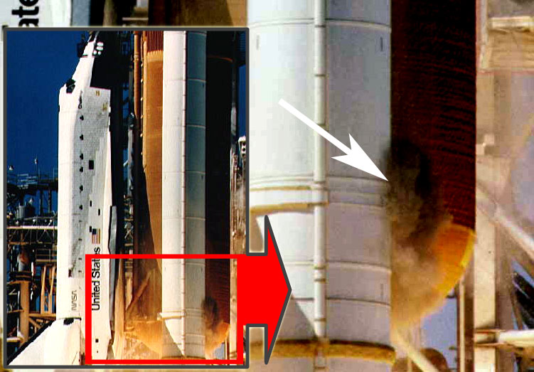 Close-up view of the liftoff of the Shuttle Challenger on mission STS-51L taken from camera site 39B-2/T3. From this camera position, a cloud of grey-brown smoke can be seen on the right side of the Solid Rocket Booster (SRB) on a line directly across from the letter "U" in United States. This was the first visible sign that an SRB joint breach may have occured.